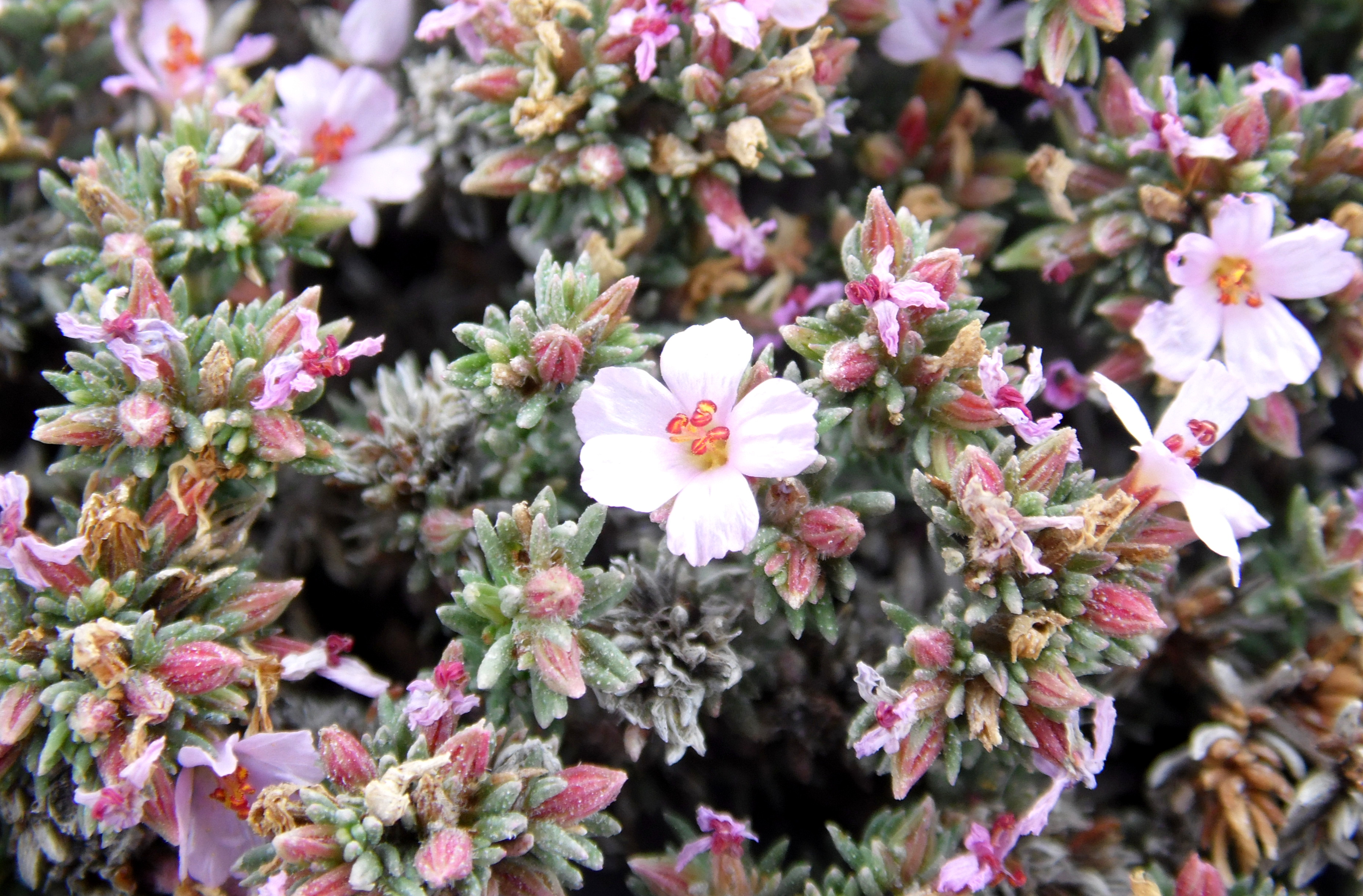 Frankenia hirsuta in Pozo de Izquierdo on Gran Canaria